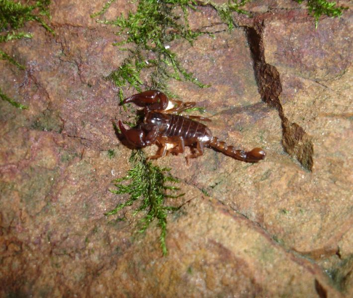 Euscorpius mingrelicus. Photo by Filip Lazarevic